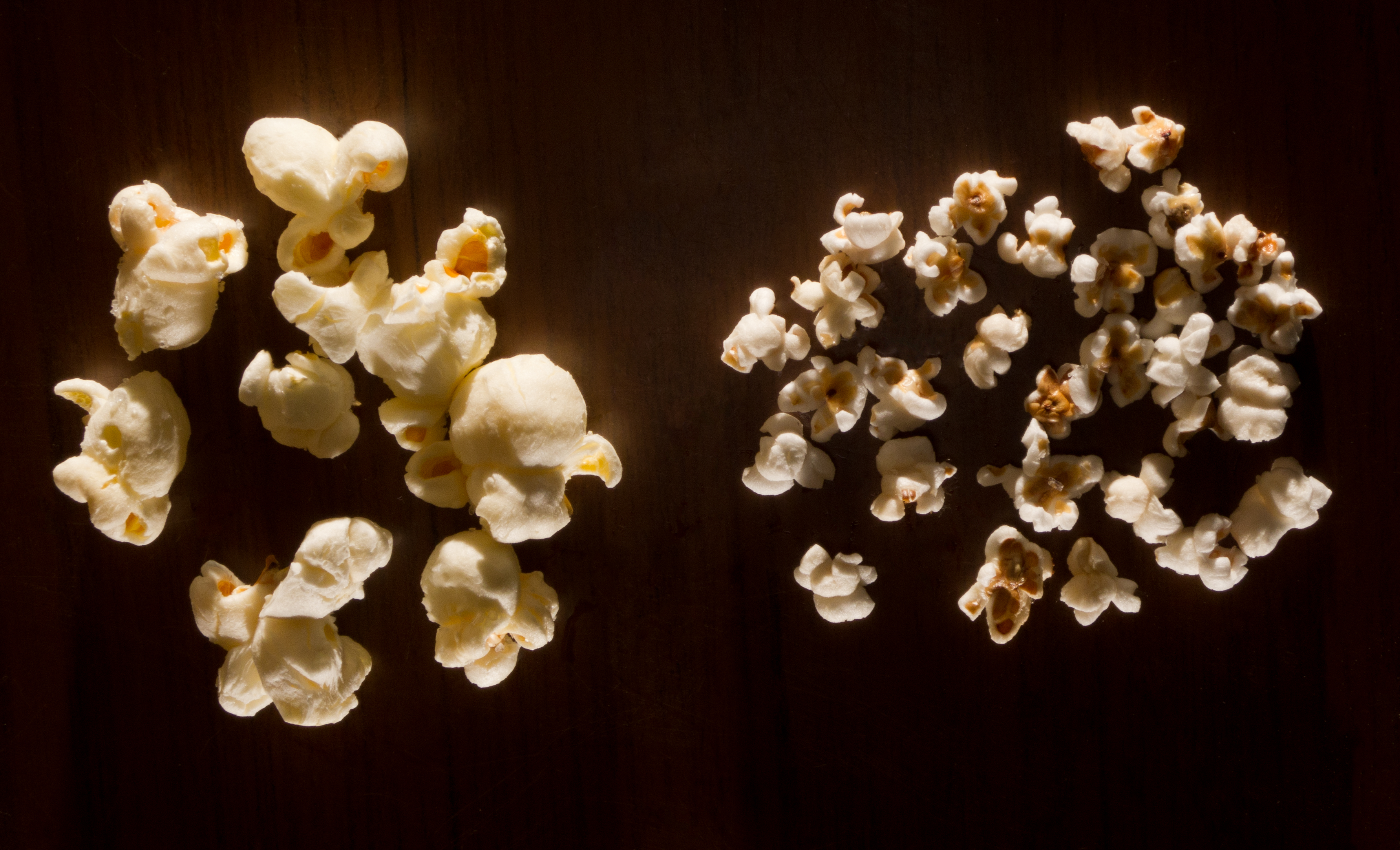 Popcorn (L) and popped Sorghum (R) for size comparison.